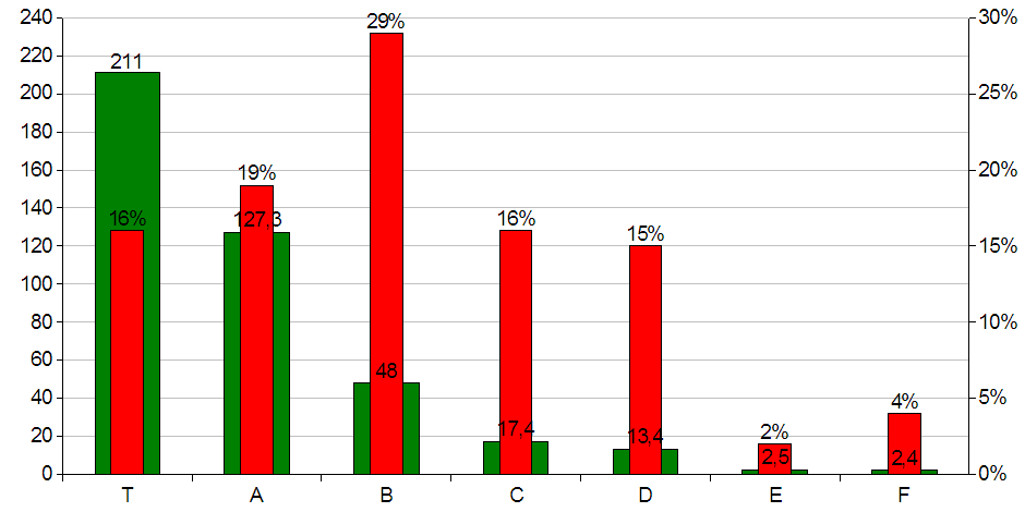 Distribution of child labour per region, for children aged 5-14 years old. T = Total A = Asia / Pacific B = Subsaharian Africa C = Latin America / Caribbeans D = Middle East / North Africa E = Developed economies F = Transition economies. The green column (left taxis) indicates the number of economically active 5-14 years old children in millions, while the red column (right axis) indicates their proportion in the total children of this region.